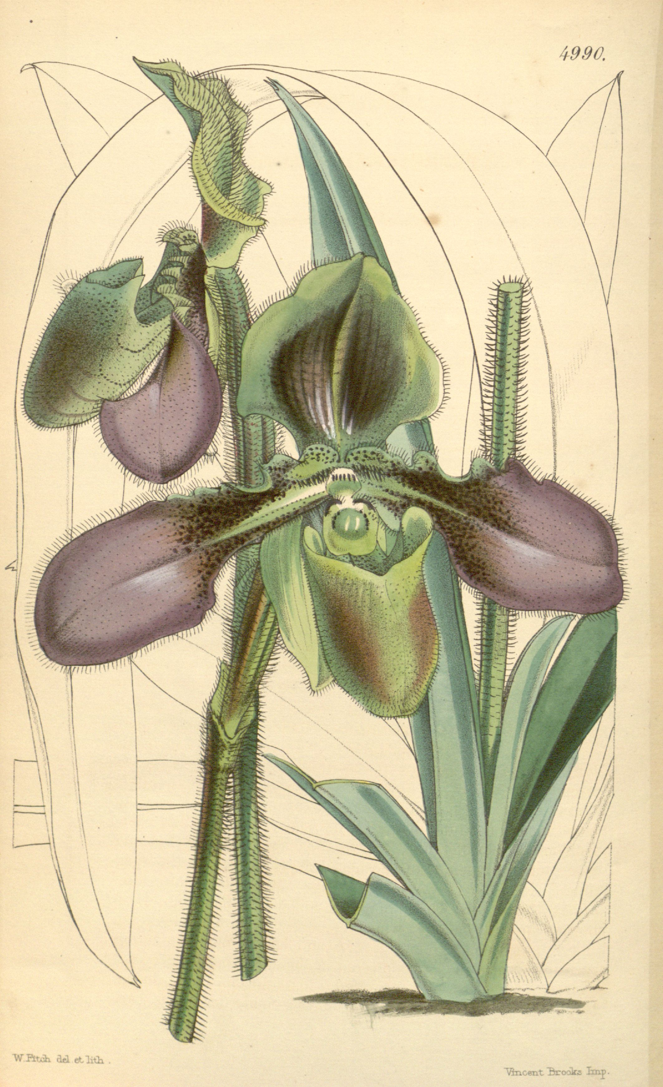 Illustration of Paphiopedilum hirsutissimum (as syn. Cypripedium hirsutissimum)